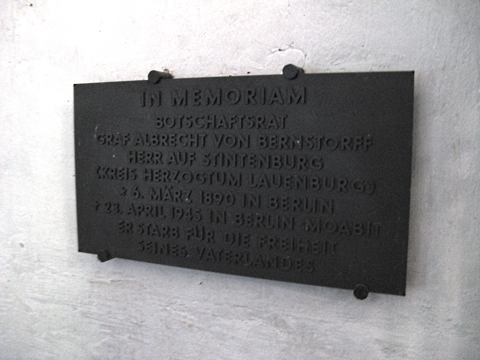 Memorial for Albrecht Graf von Bernstorff (1890-1945) in the Church St. Abundus in Lassahn, Mecklenburg-Vorpommern, Germany